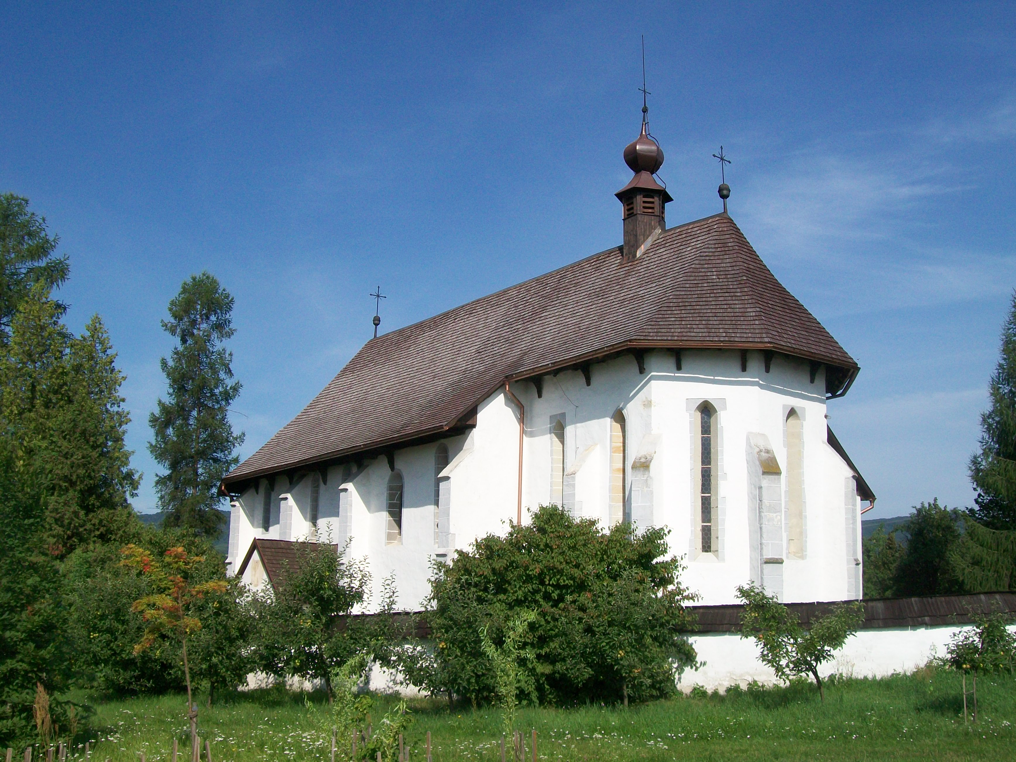 Roman Catholic Church of St. George the 13th century in the village Stará Halič (cultural Heritage)